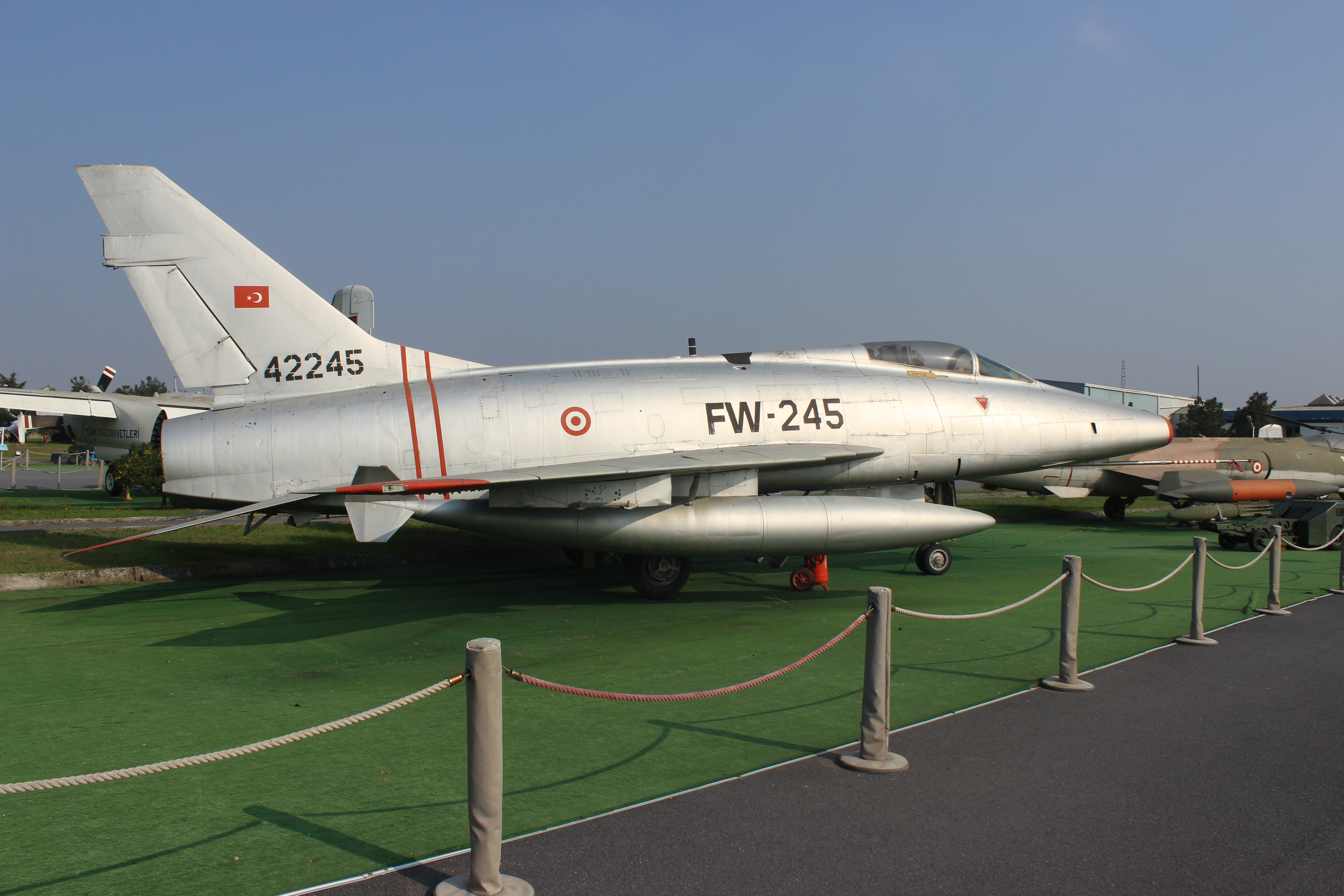 North American F-100 Super Sabre of the Turkish Air Force displayed at Istanbul Aviation Museum